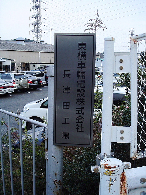 The vehicle factory front gate（Train） 東急テクノシステム